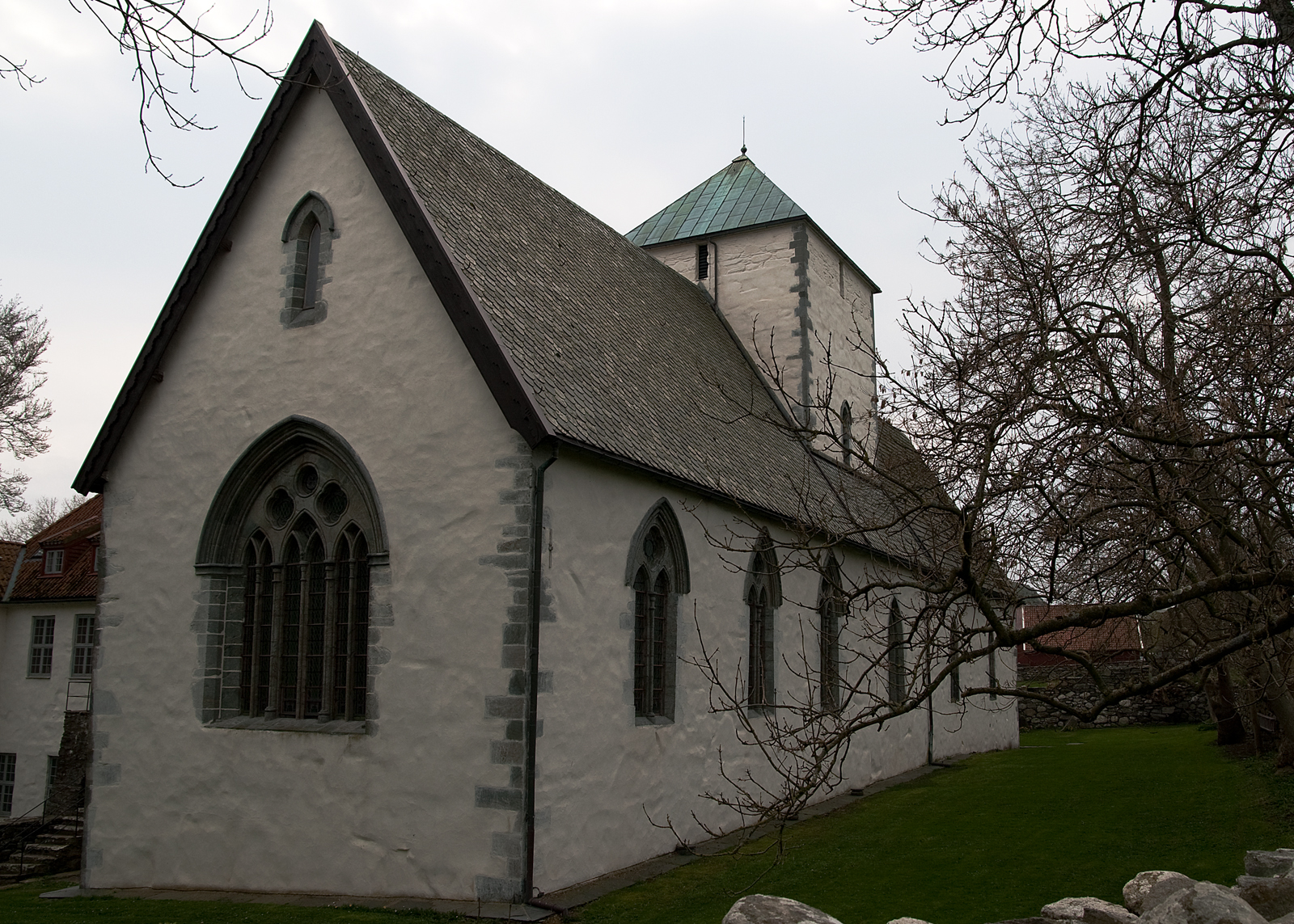 Picture of Utstein klosterkirke